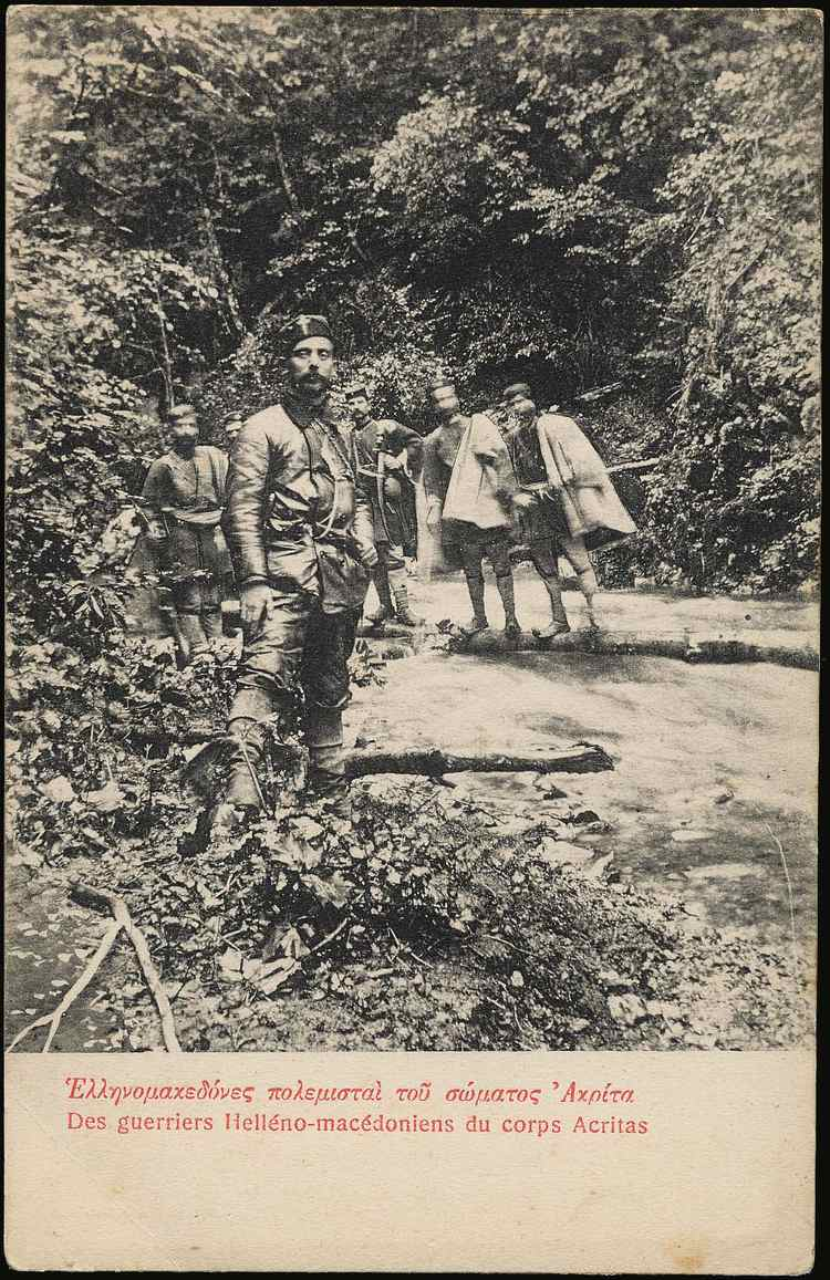 Greek andart captain Kostas Akritas (Konstantinos Mazarakis-Ainian)